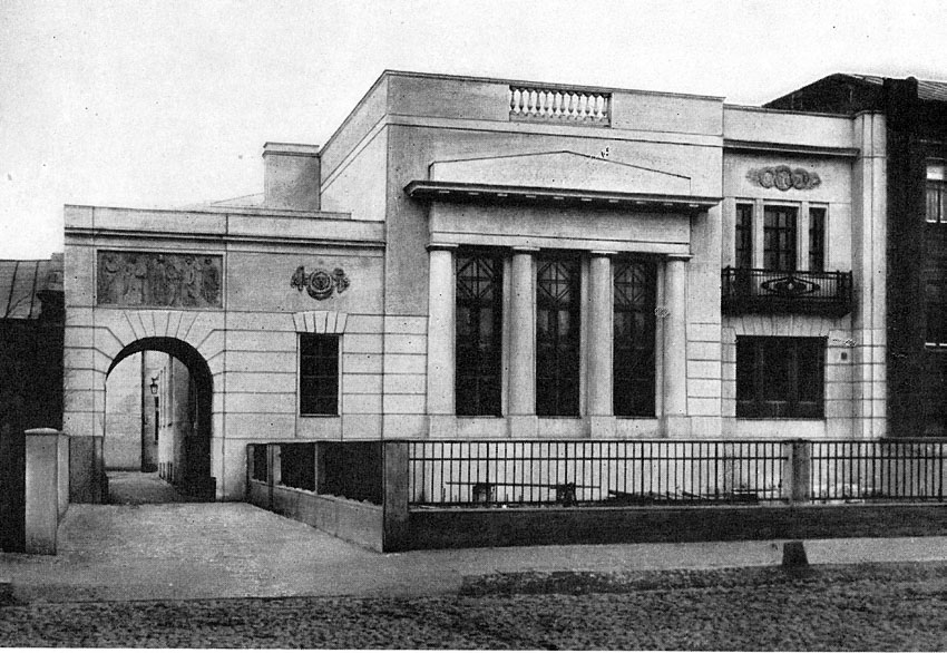 Moscow, 1910, own house (third of three) by Fyodor Schechtel